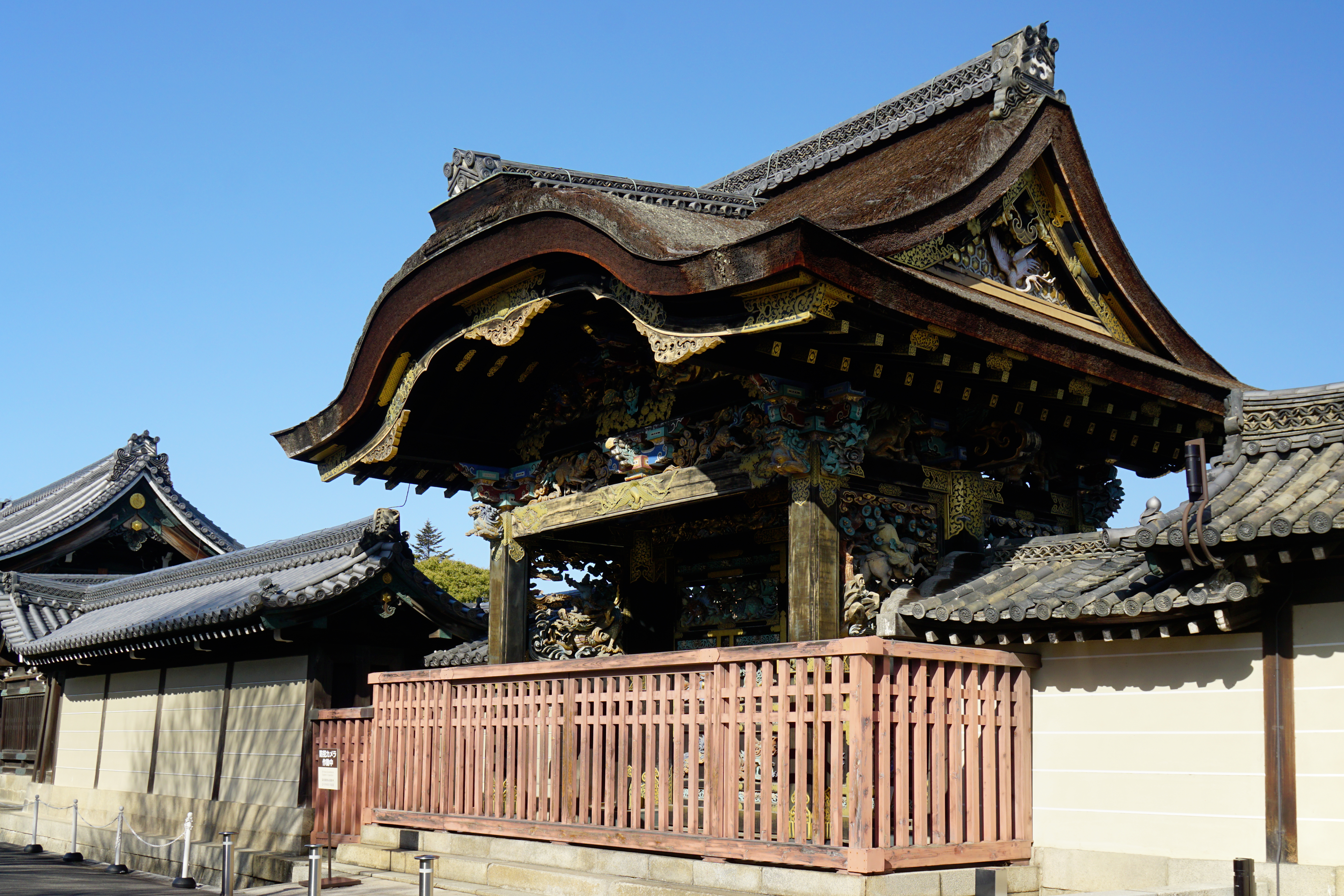 Nishi Honganji in Kyoto, Kyoto prefecture, Japan